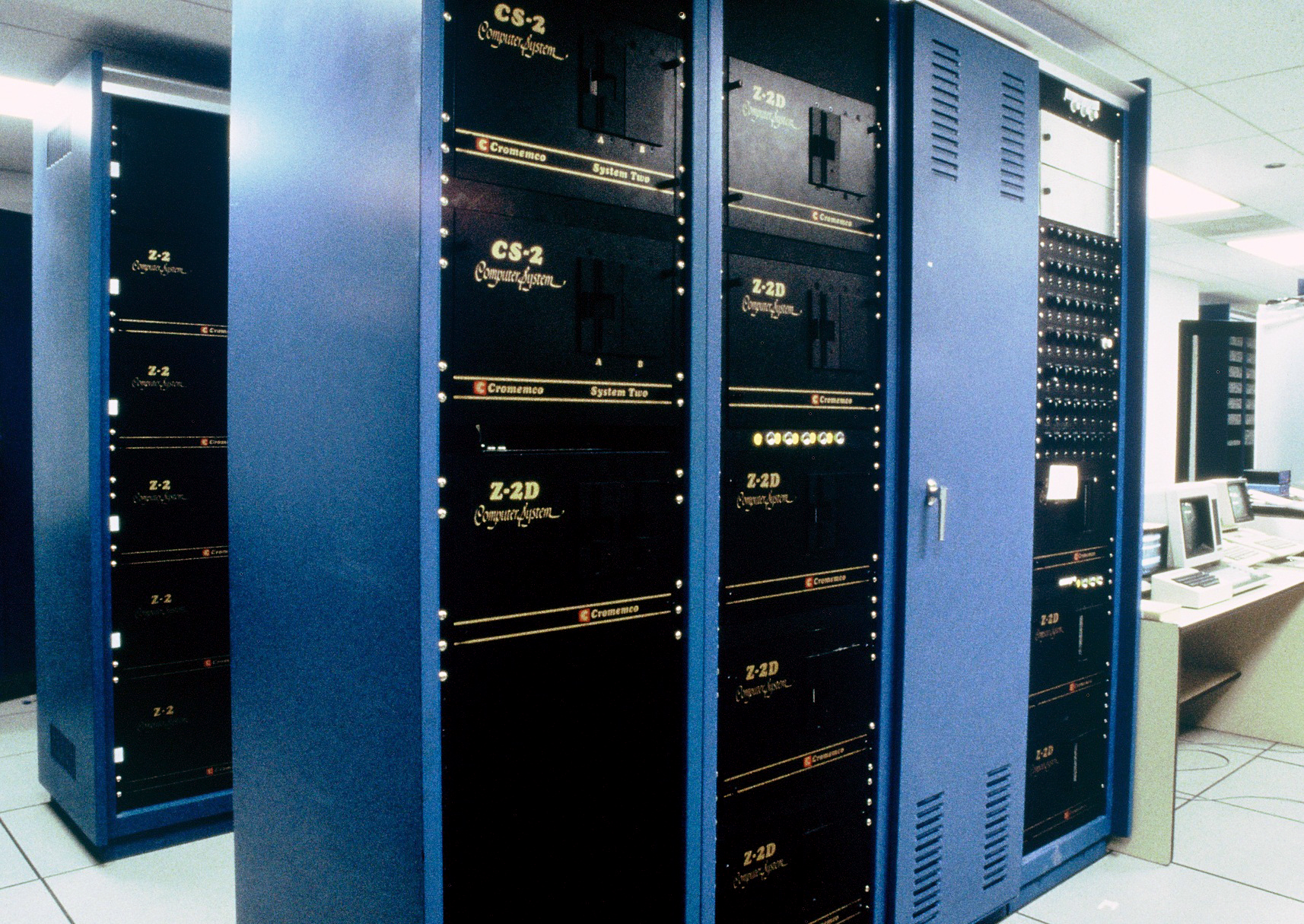 Cromemco Z-2 Systems at Chicago Mercantile Exchange (CME) in 1984. CME used 60 Cromemco systems to support all floor trading.